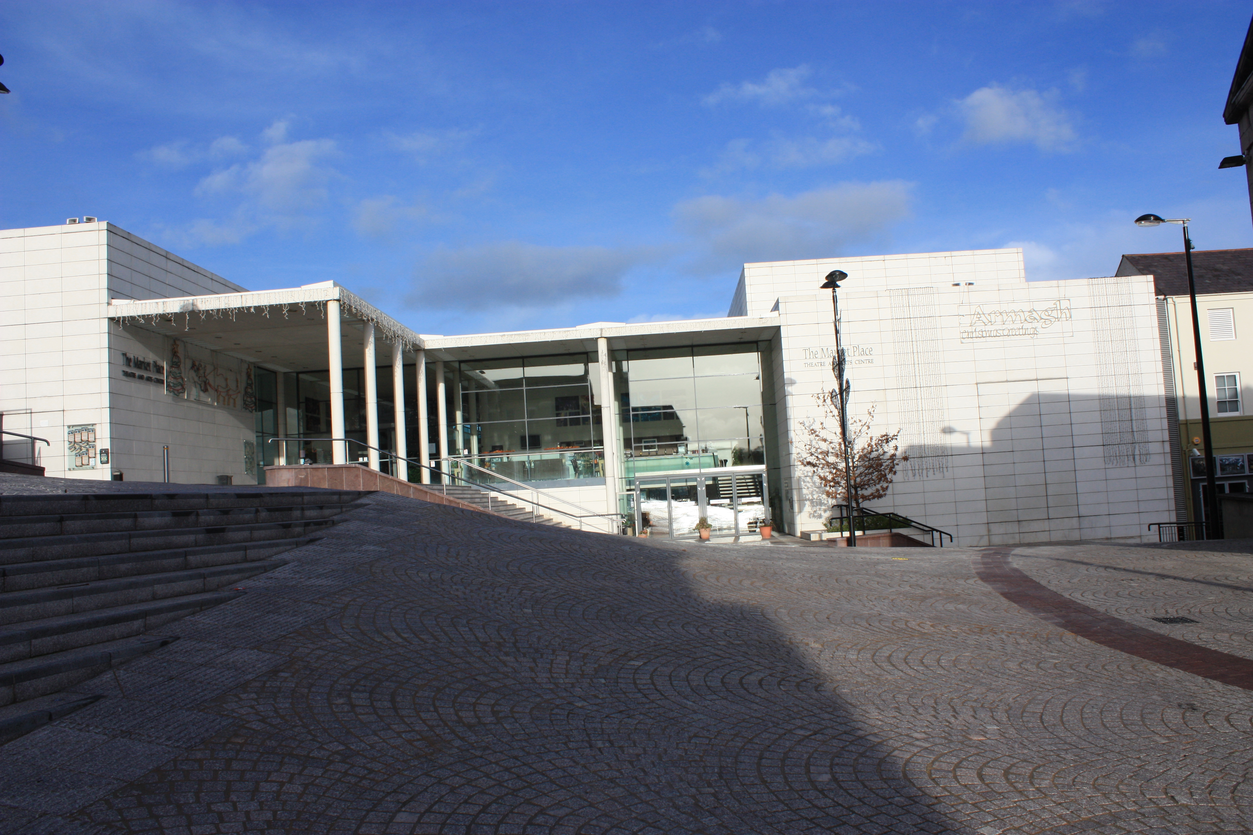 The Market Place Theatre and Arts Centre, Market Street, Armagh, County Armagh, Northern Ireland, November 2009